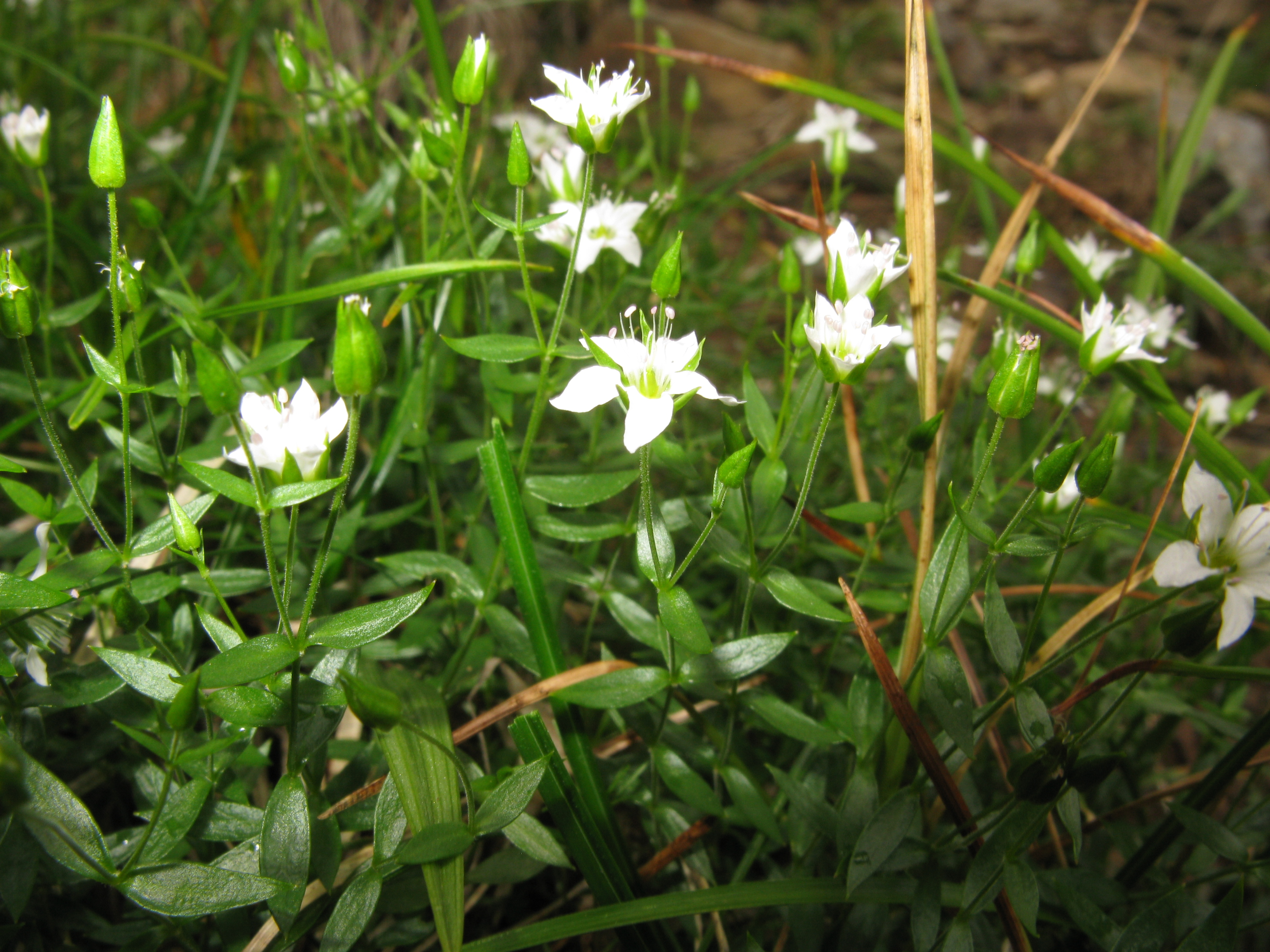 Arenaria katoana, Mount Shibutsu, Gunma pref., Japan